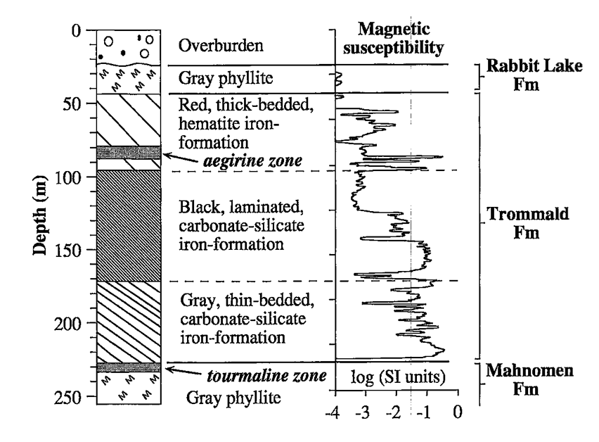 Stratigraphic column of the North Range district of the Cuyuna Iron Range. Geology is from a core sample drilled on the Merritt mine property.